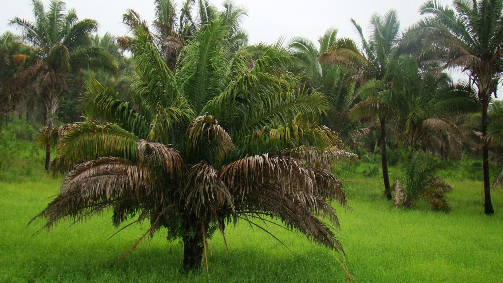 Attalea phalerata near Grajaú, Maranhão state, Brazil